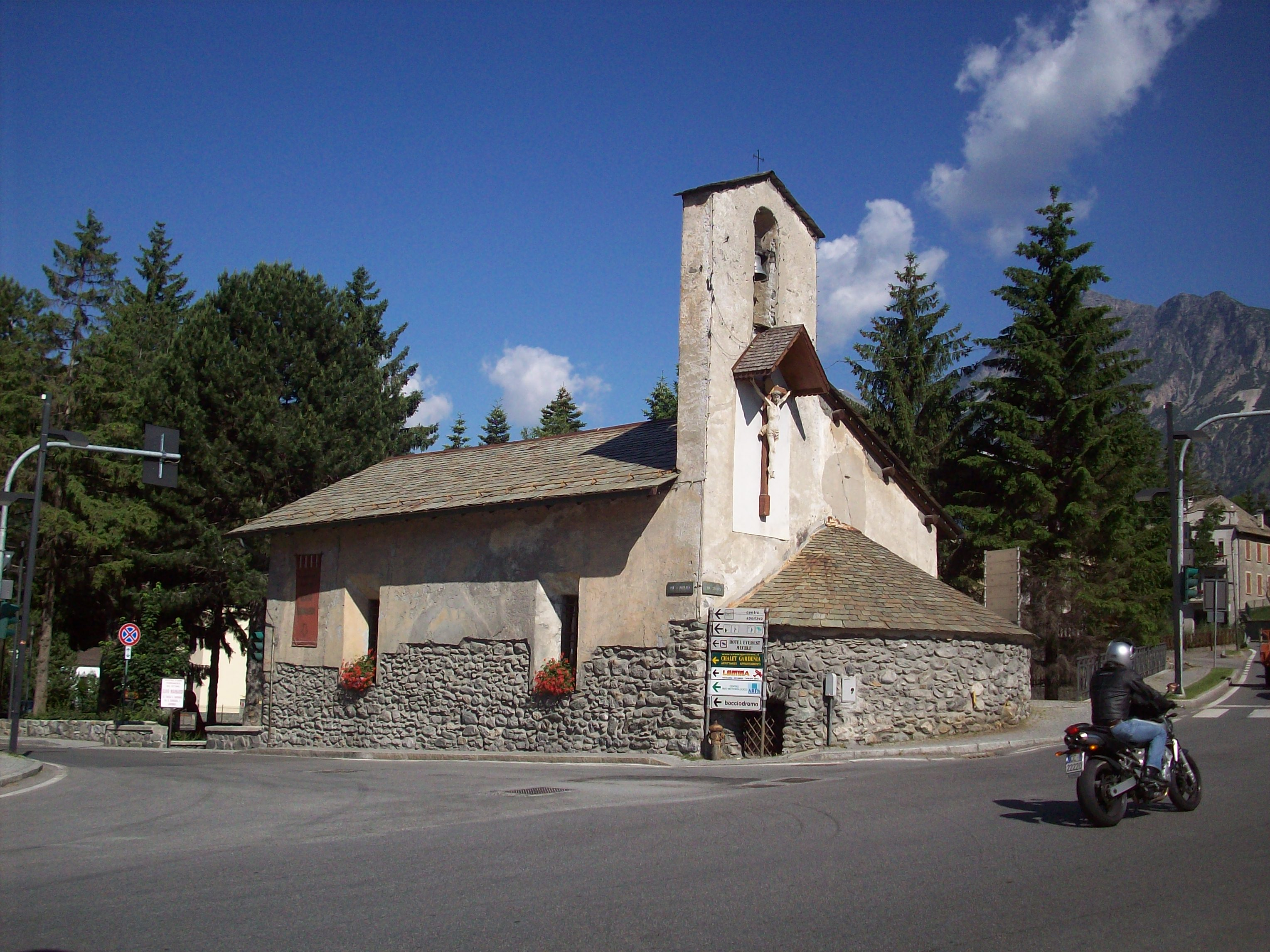 Santa Barbara's church in Bormio.